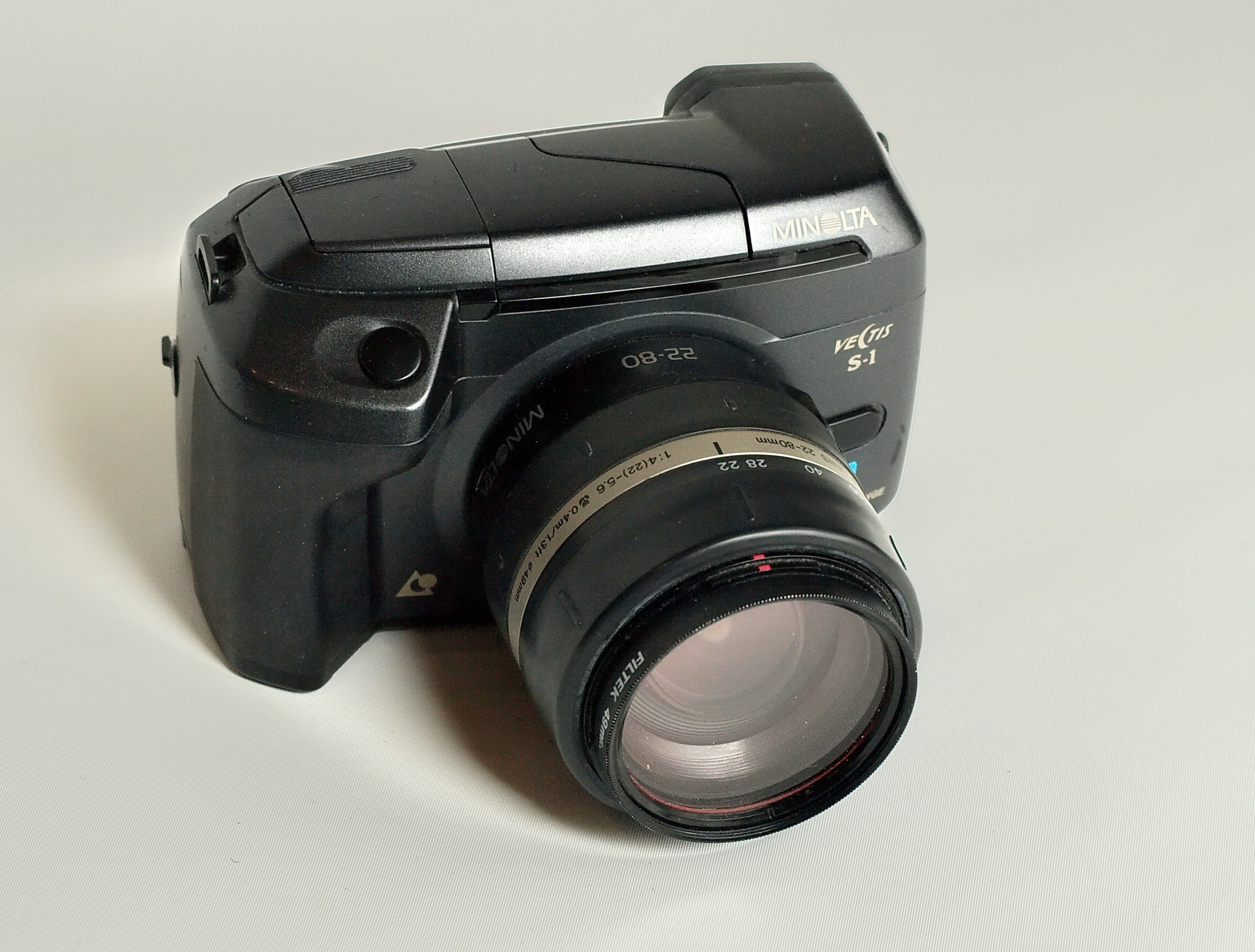 Minolta Vectis S1. Minolta V lens 22 - 80 (56-170mm) 1:4,5 - 5,6